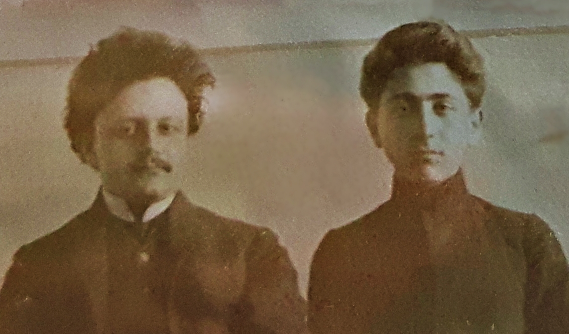 Alexander Fiedemann (left) and his student Naoum Blinder at Odessa Imperial Russian Musical College, April 1906. Picture from Alexander Schaichet's private archives.